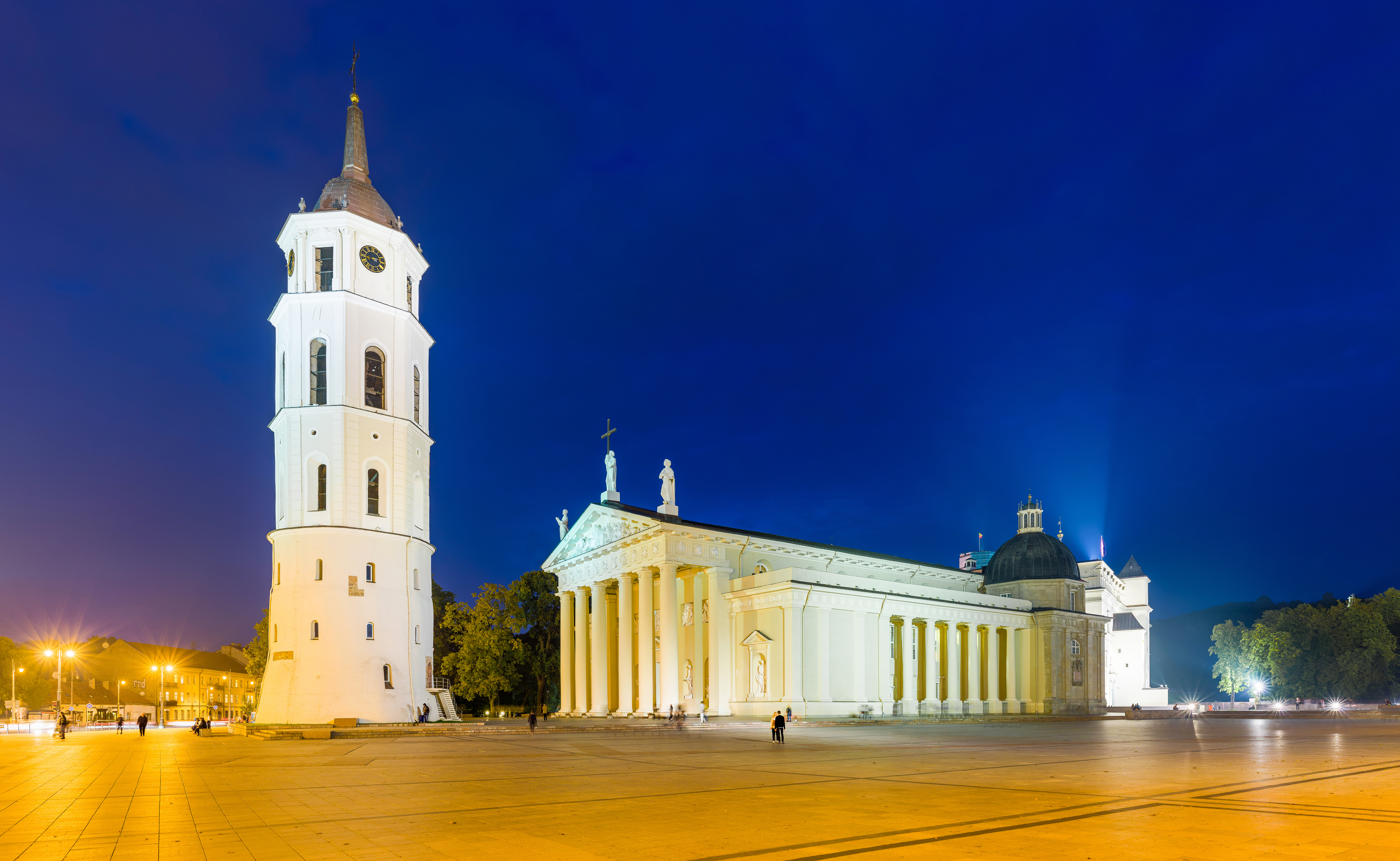 The exterior of Vilnius Cathedral at night, viewed from the south west. On the left is the belfry.